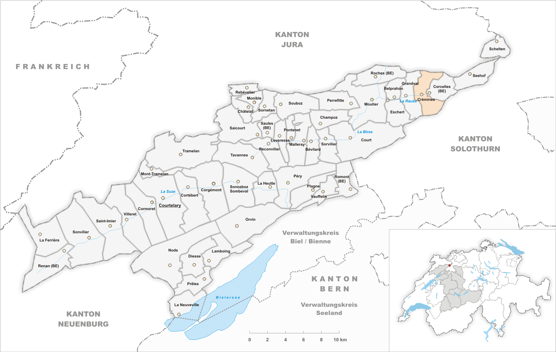 Municipality Crémines